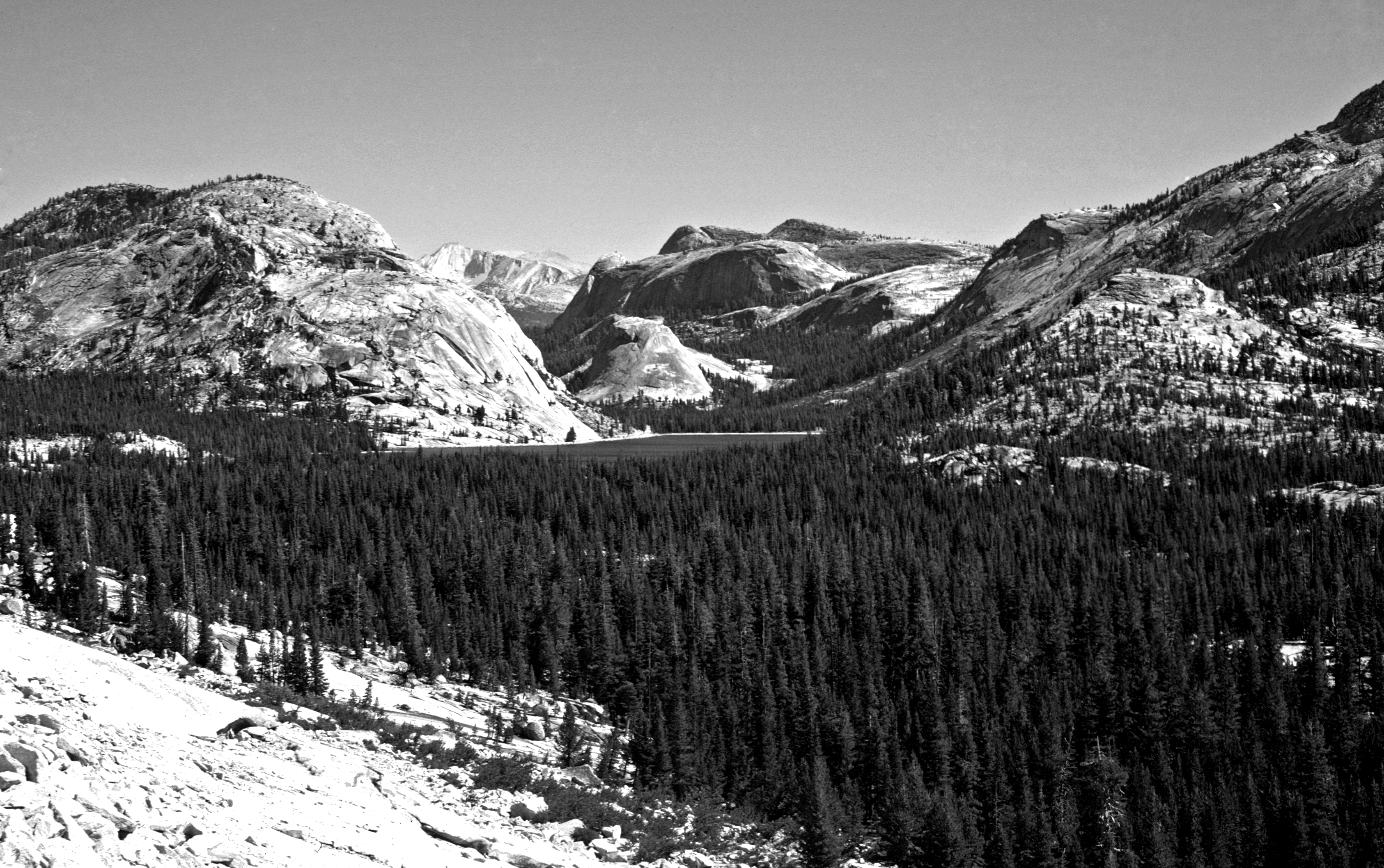 Lake Tenaya in Yosemite National Park, California.